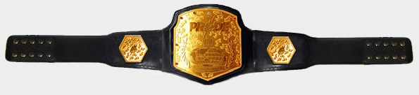 PRIDE GP Belt created with PRIDE GP 2000 cd's collector edition and UFC belt